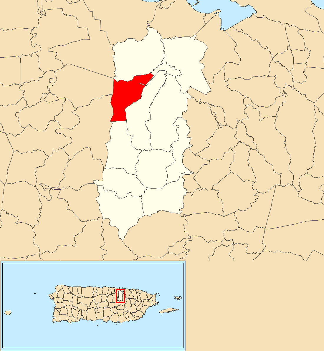 Pájaros, Bayamón, Puerto Rico locator map